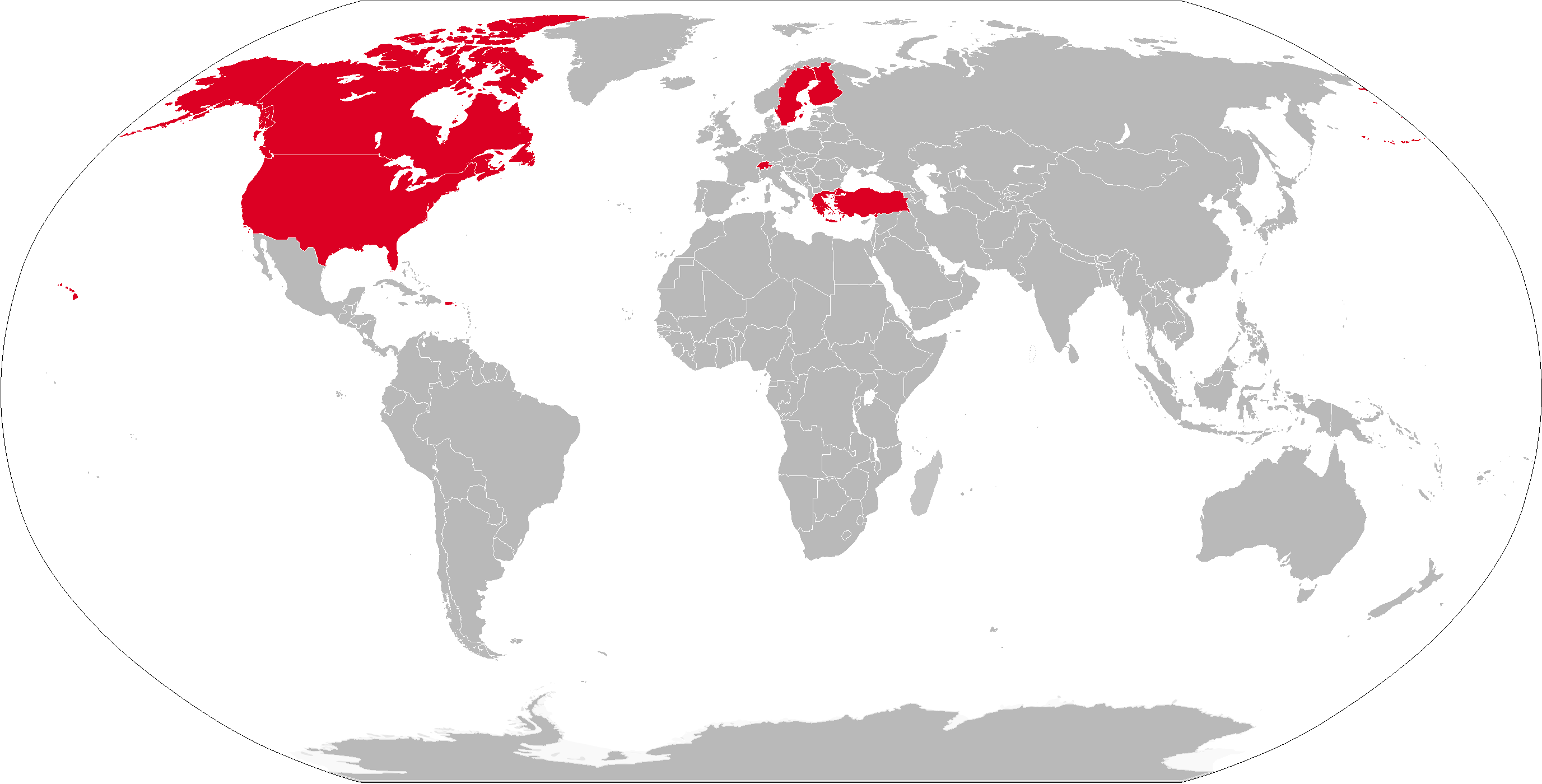 Map with AIM-4 operators in blue